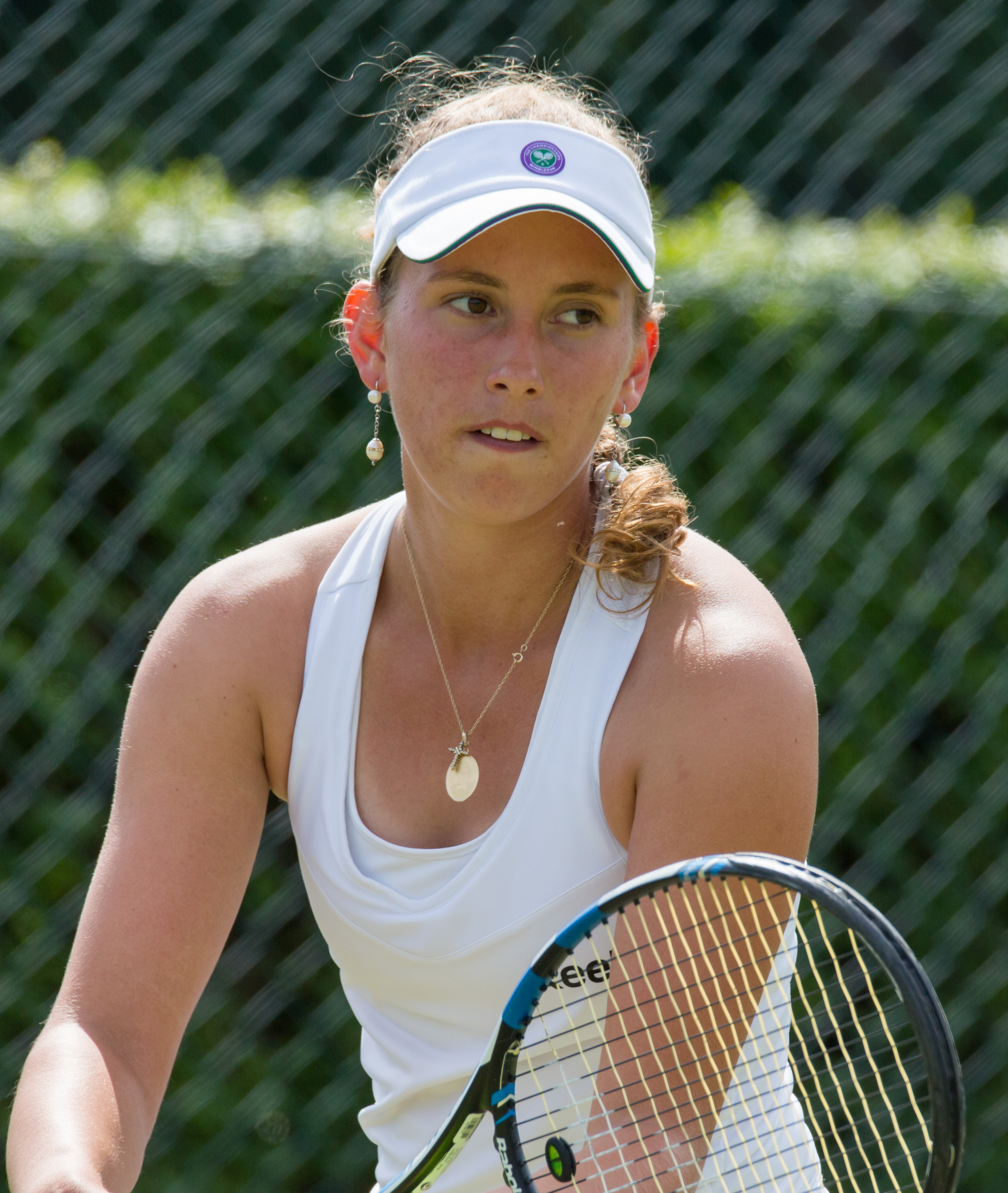 Elise Mertens competing in the first round of the 2015 Wimbledon Qualifying Tournament at the Bank of England Sports Grounds in Roehampton, England. The winners of three rounds of competition qualify for the main draw of Wimbledon the following week.